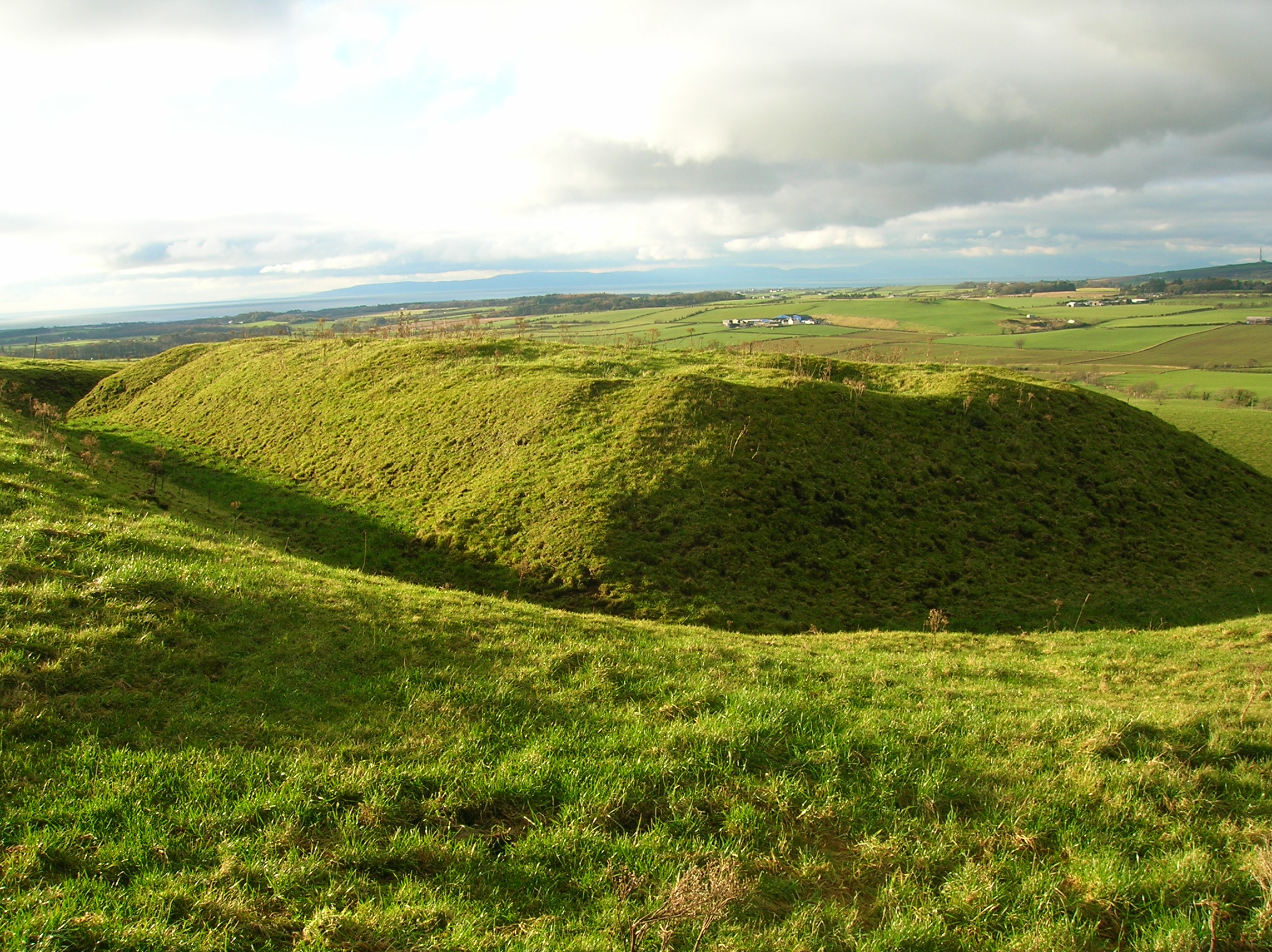 The moated site of Barnweill Castle, Craigie, Ayrshire, Scotland.